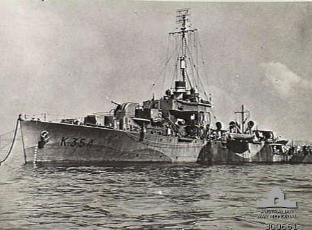 Photograph of Australian frigate HMAS Gascoyne.